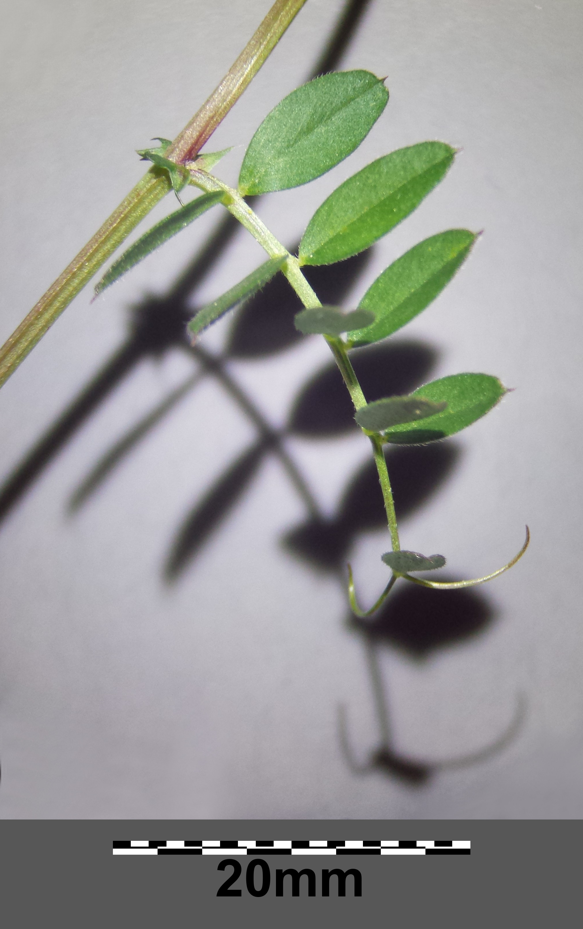 Stem with leaf with tendril Taxonym: Vicia angustifolia subsp. segetalis ss Fischer et al. EfÖLS 2008 ISBN 978-3-85474-187-9 Location: Neue Donau, Vienna-Floridsdorf - ca. 160 m a.s.l. Habitat: dry slope